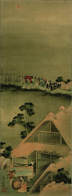 Kitsune no yomeiri (Marriage of fox)